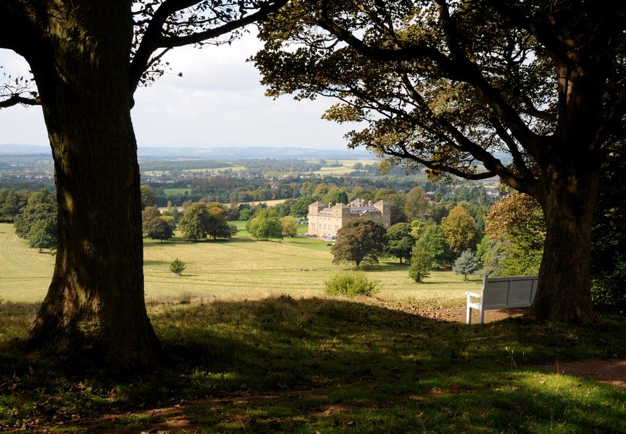 A view of Hagley Hall and the Worcestershire countryside beyond from Milton's Seat in Hagley Park